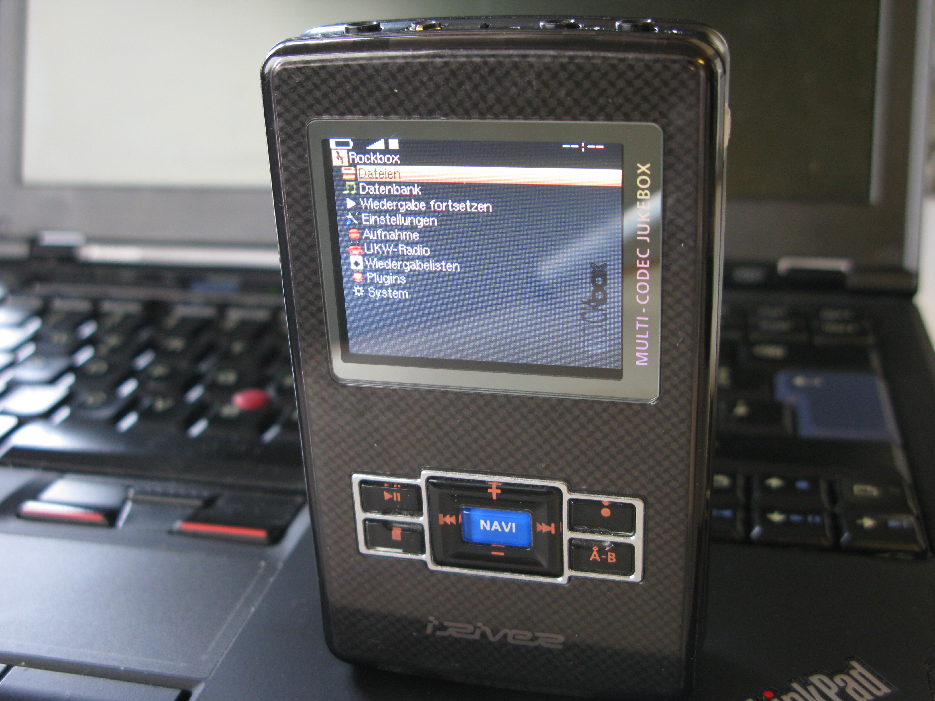 MP3 Player iRIVER H320 with LINUX Firmware ROCKBOX